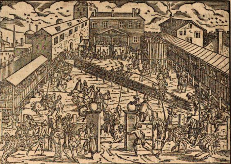 Skanderbeg and other students in the school of Enderun receiving military training